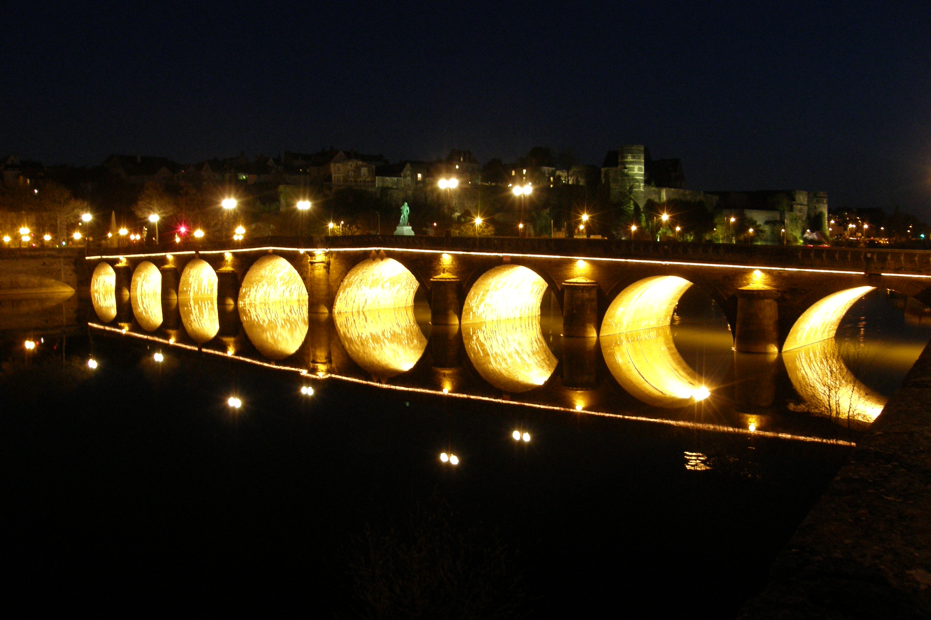 Angers bridge at night